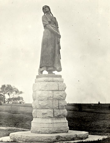 Statue of Evangéline in Grand-Pré, Nova Scotia.